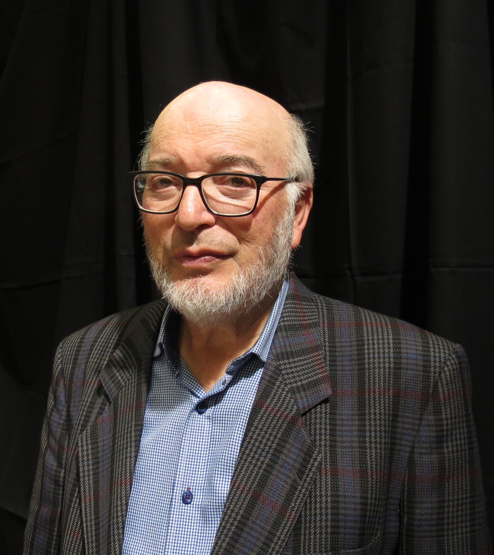 Lennart Wohlgemuth, a swedish social scientist specialized on african studies regarding european foreign aid, faculty of the University of Gothenburg. Picture taken at the Wikimedia Sverige stand at the 2016 Göteborg Book Fair.